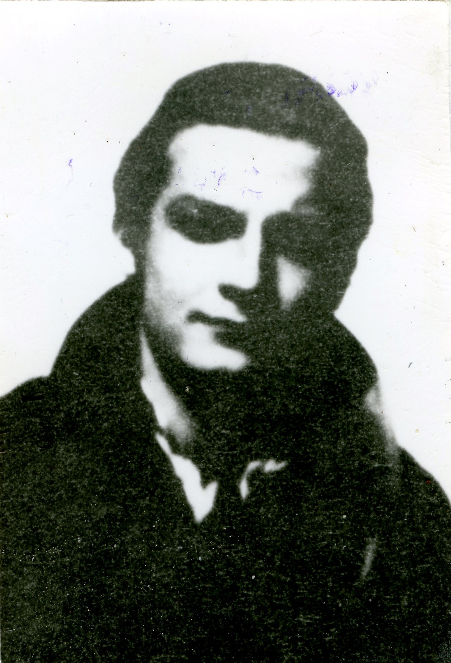 Branko Arsenijević, volunteer from Vojvodina (Serbia) in Spanish Civil War (1936-1939) Srpski (latinica): Branko Arsenijević, dobrovoljac iz Vojvodine u Španskom građanskom ratu (1936-1939)